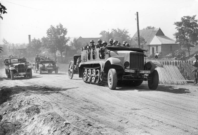 SdKfz 6/1 Typ BN I 8